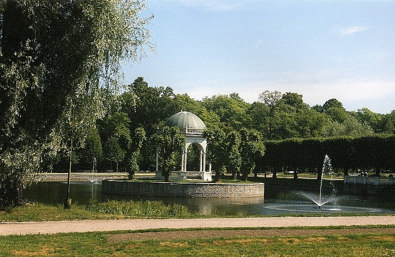 The park of Kadriorg, Luigetiik.